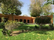 The shared Dhahran ISG campus LRC.